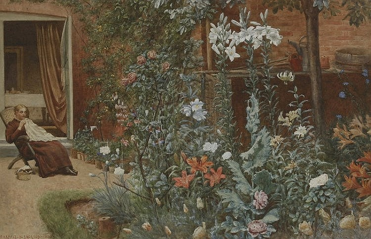 In the garden